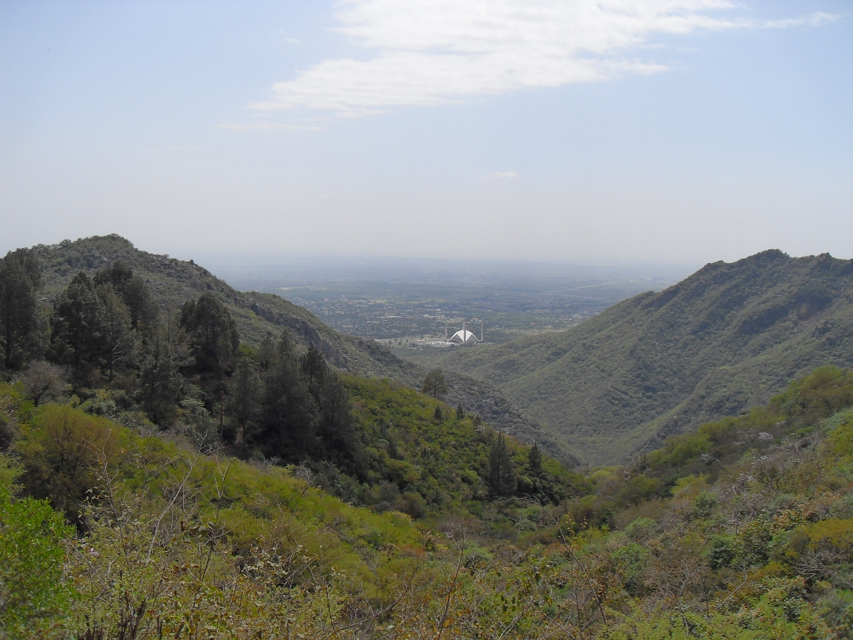 This is a picture of the Margalla Hills, Islamabad, Pakistan. The name of the place (viewing point) is Daman-e-koh. There is one of the biggest mosques of the world, Faisal Mosque, in the center of the image.